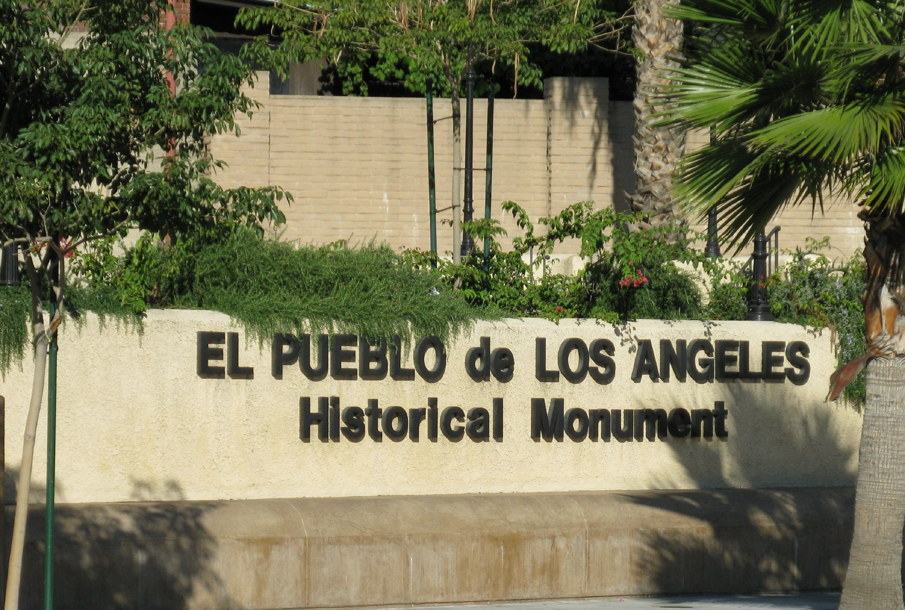 Naming the historical district